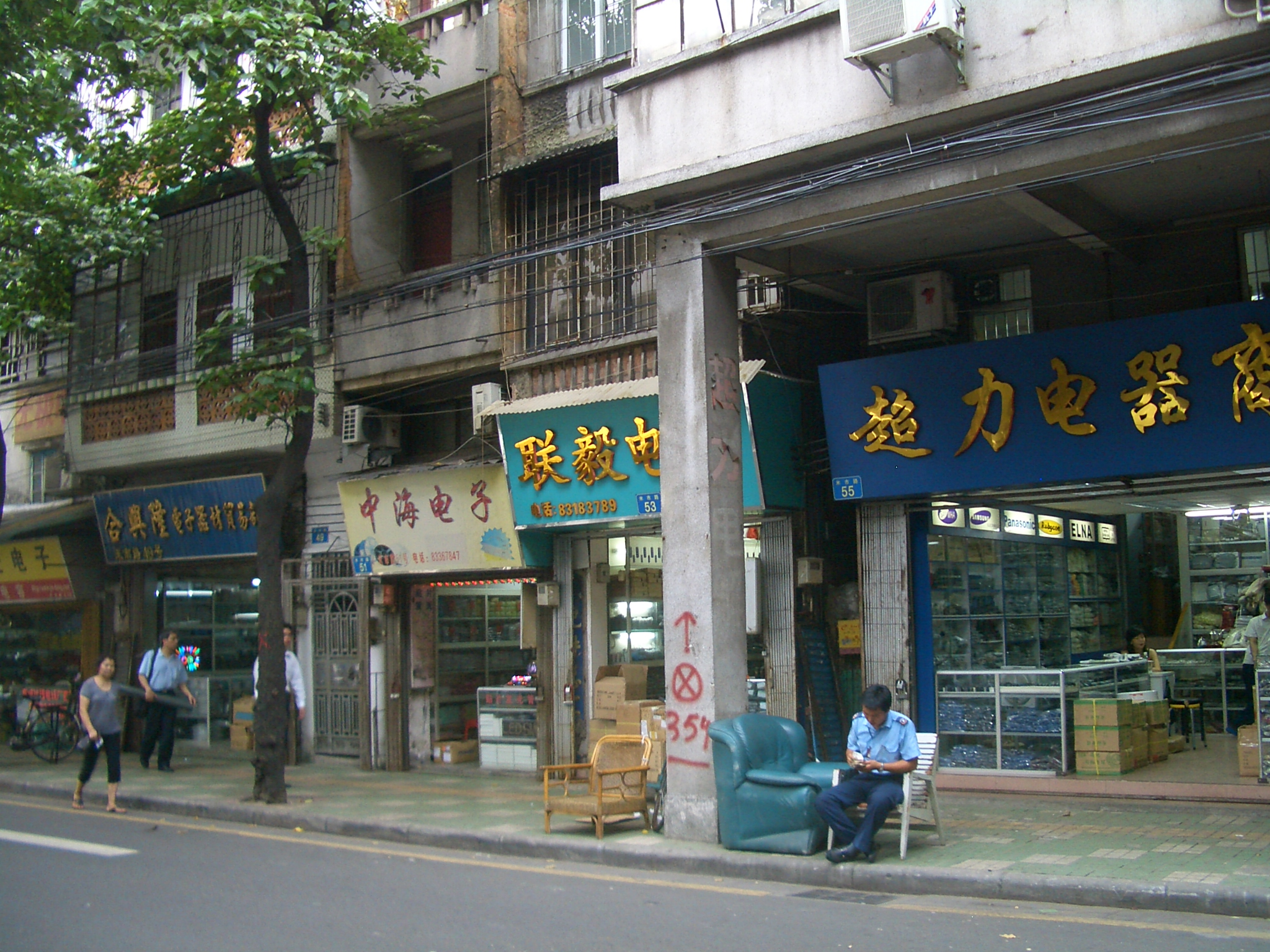 Electronic components shops in Guangzhou. There is a whole area - several blocks not far from the Guangta Mosque - mostly taken over by these shops. They, apparently, supply local companies that assemble various electronic and electric products